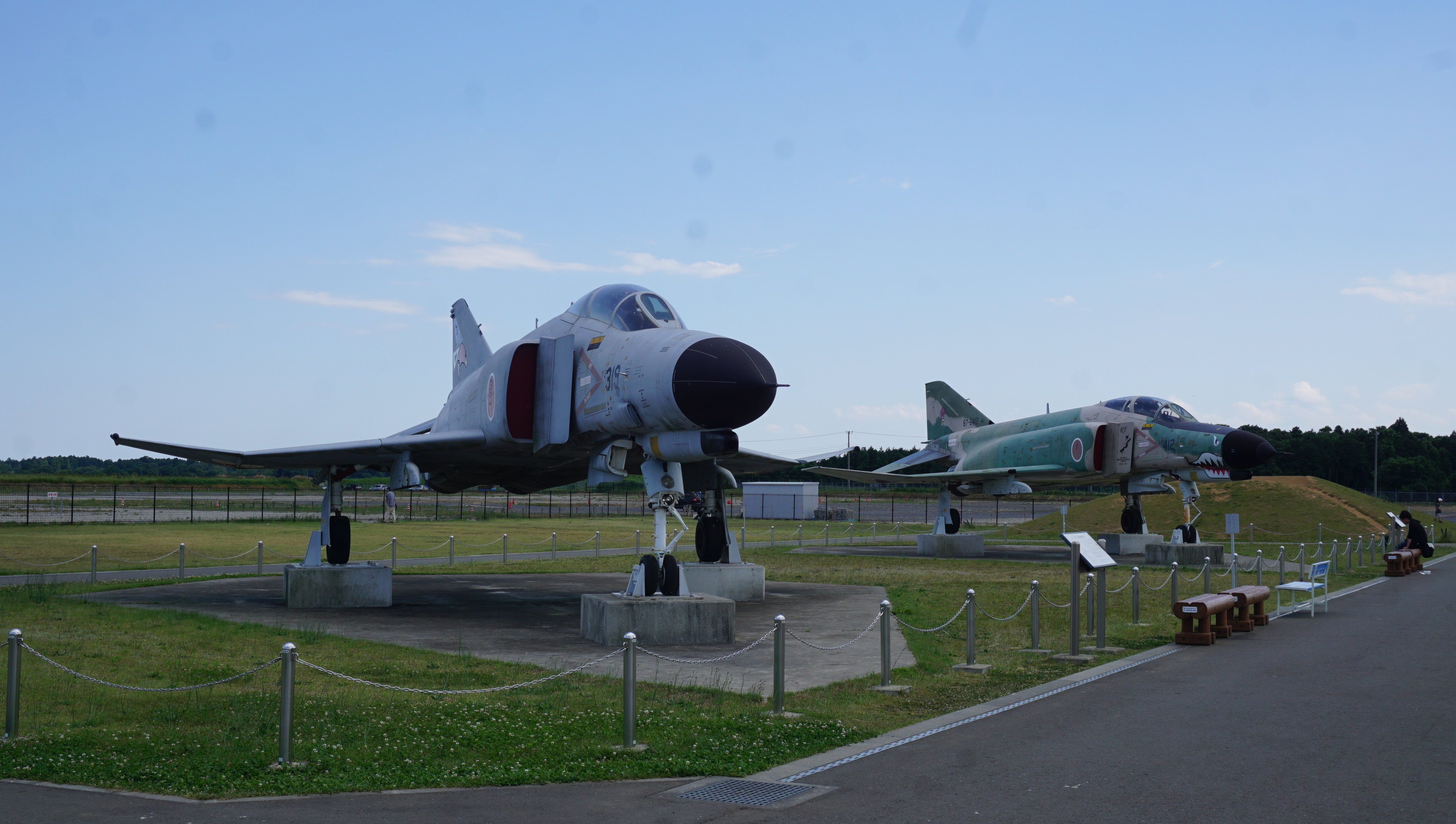 Two retired JASDF F-4Es in Ibaraki airport